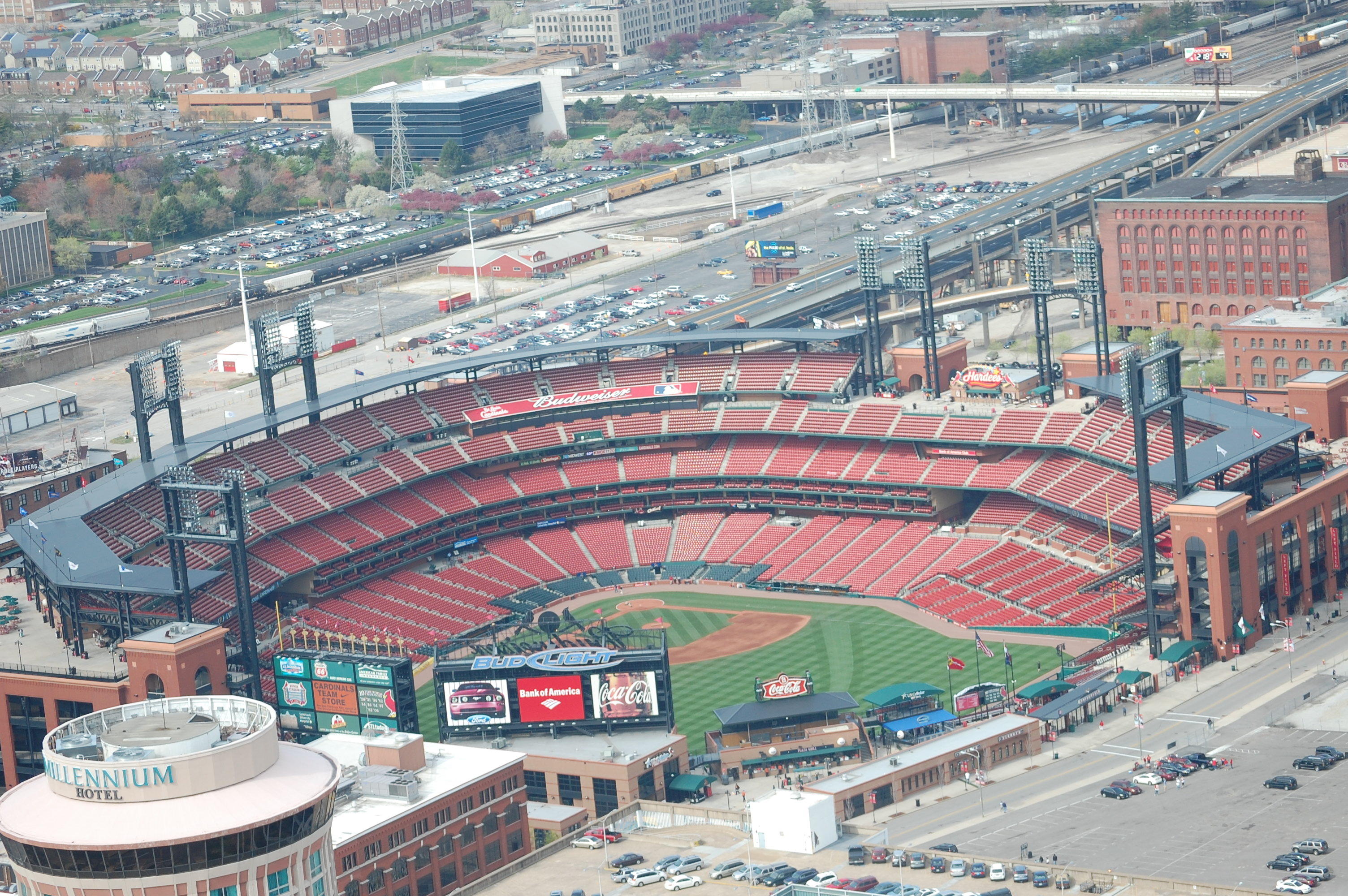 Busch Stadium as seen from the Gateway Arch